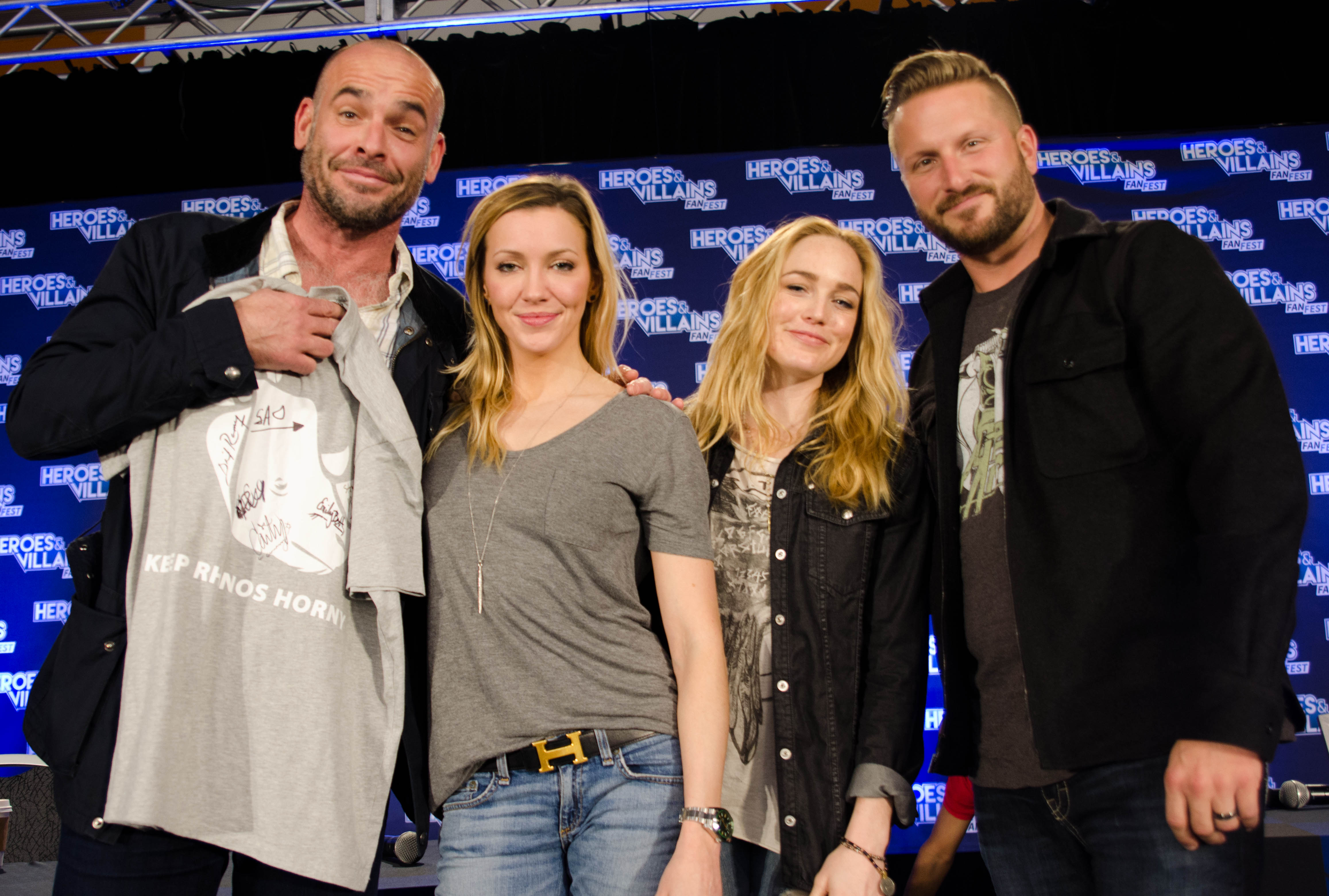 Paul Blackthorne, Katie Cassidy and Caity Lotz at HVFF The Lances panel.